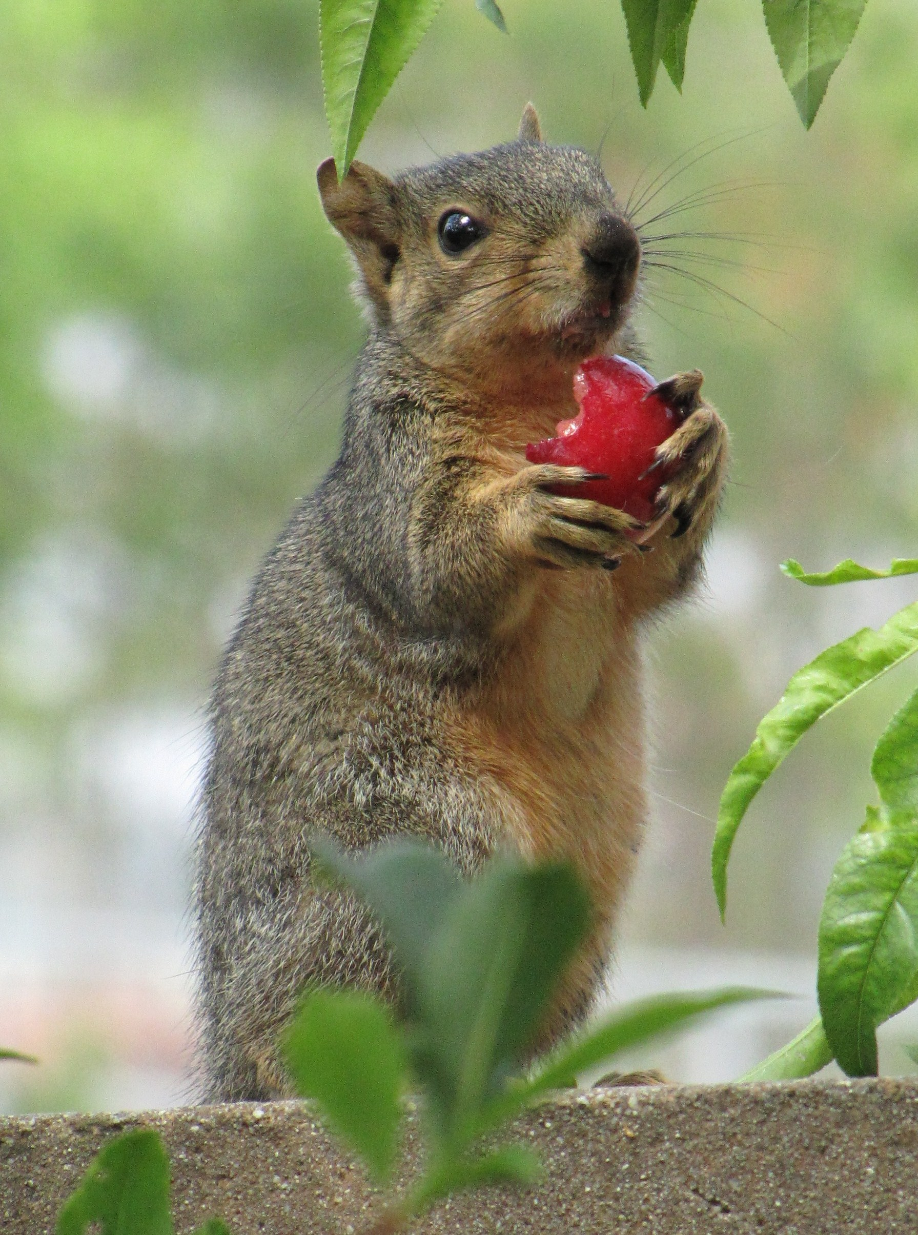 Sciurus niger - fox squirrel Eating a Santa Rosa plum location: Fullerton, CA, USA